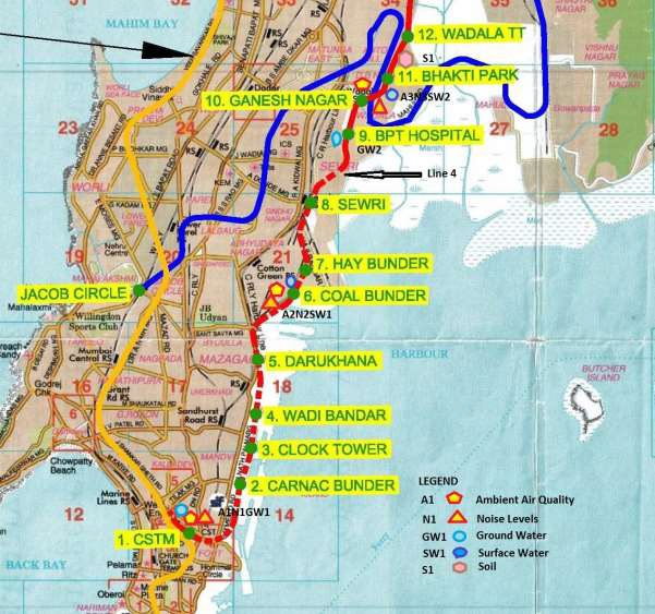 Metro line 11 map